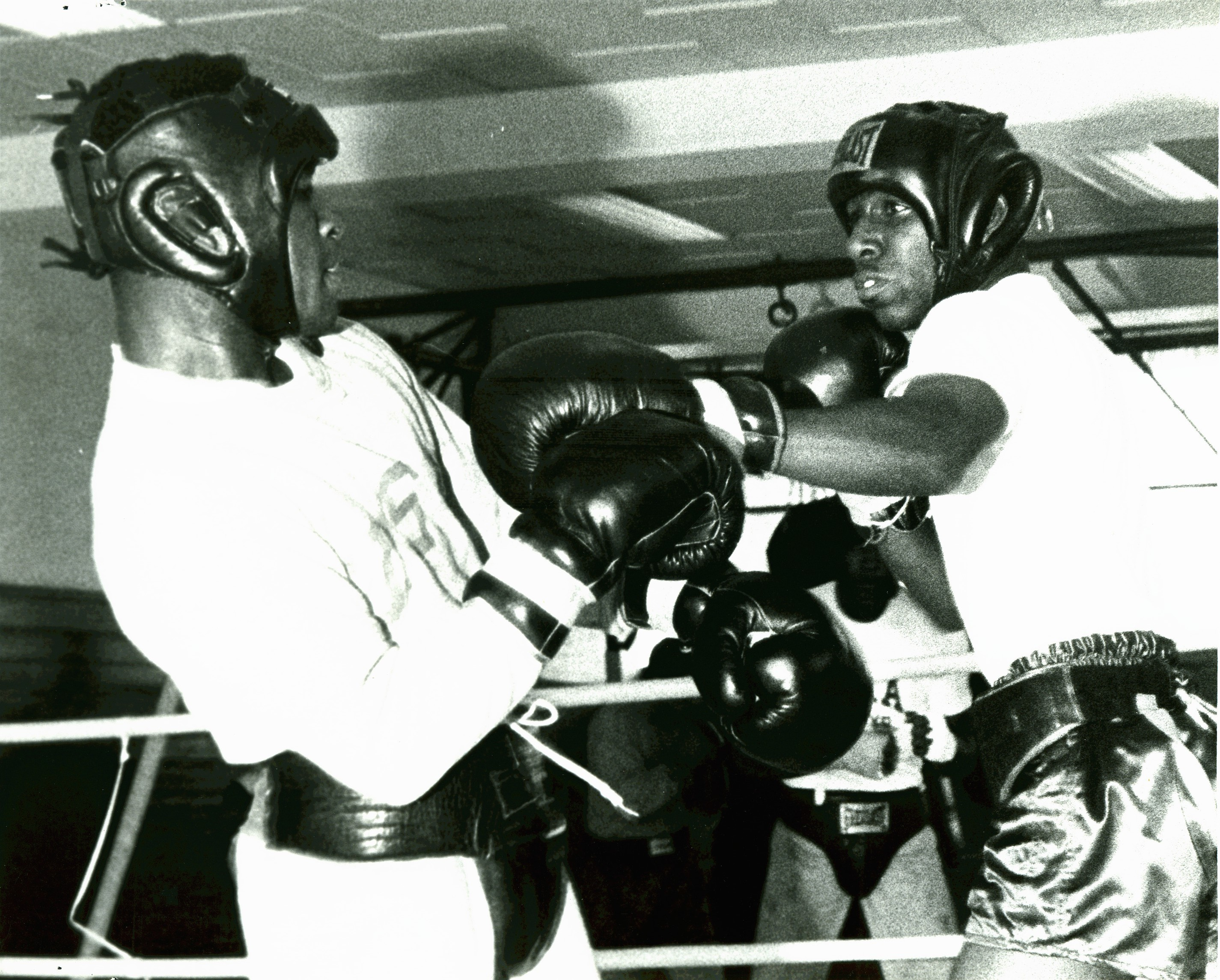 Tokyo-Marines Sgt. Charlie Brown (right) sticks a left jab into the face of his sparring partner, Ron Harris, during a training session at the Meiji University Gym, training site of the Olympic boxing teams." Brown competed at the 1964 Tokyo Olympics in the Featherweight division, winning the bronze medal. From the Olympics Collection (COLL/1515) at the Marine Corps Archives and Special Collections OFFICIAL MARINE CORPS PHOTOGRAPH